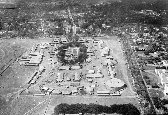 Pasir Gambir in 1930 on the Koningsplein in Jakarta, Java